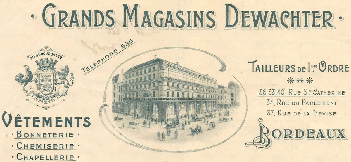 This is the letterhead for the Bordeaux location of Maison Dewachter, a chain of men's and boys' clothing stores in Belgium and France.